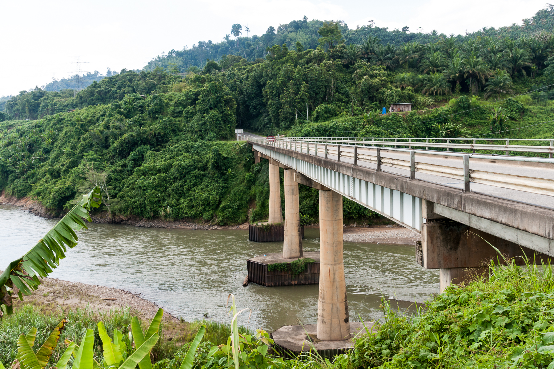 Ranau, Sabah: The POW-Route of the Sandakan Death Marches at the Bridge crossing Sungai Liwagu near Nunuk Ragang